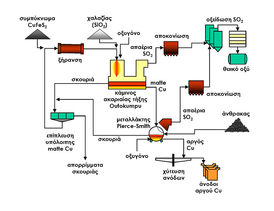 Copper flash smelting